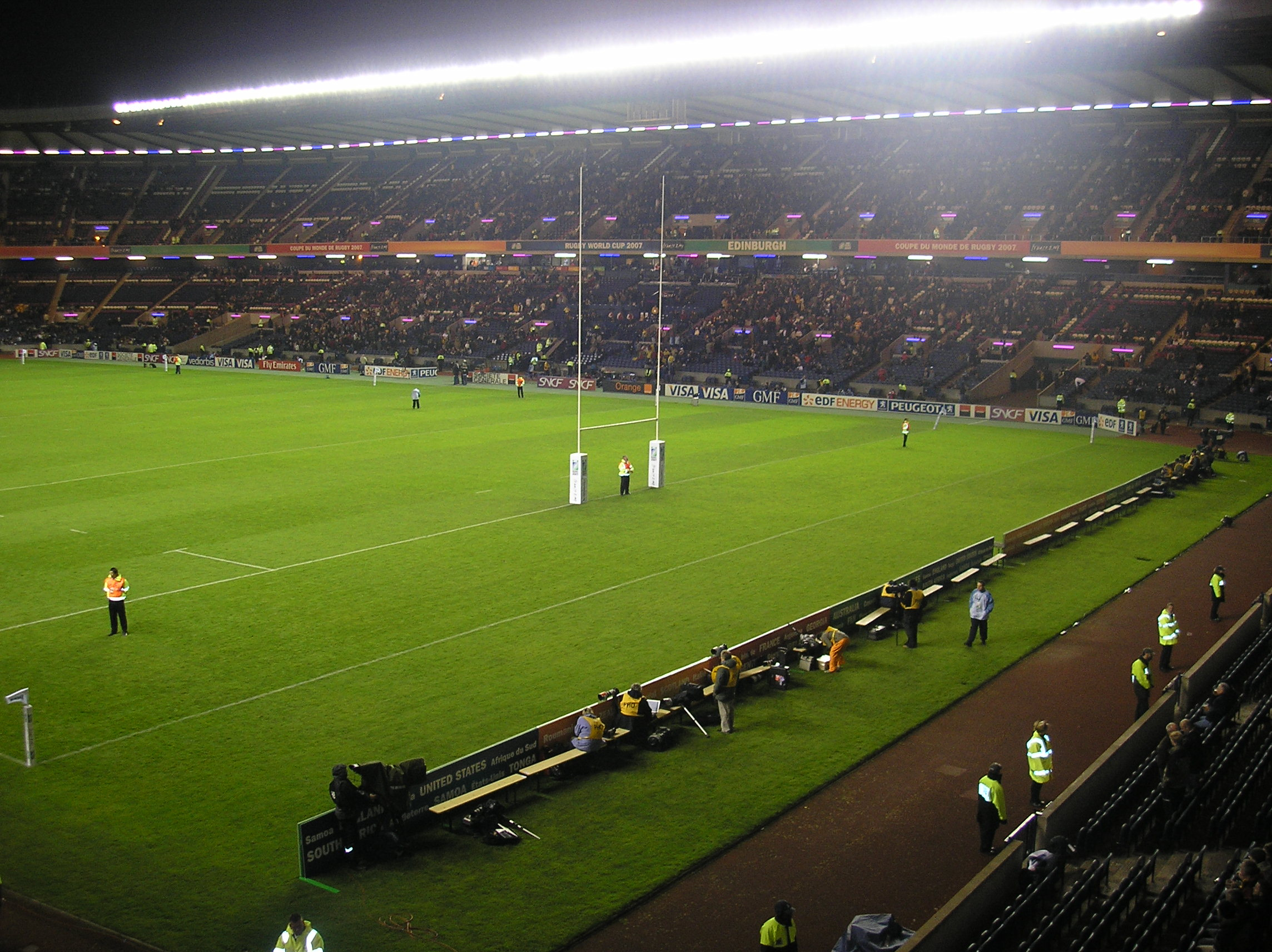 Murrayfield hosting a Scotland rugby match, this was taken at half time in the Rugby World Cup 2007.